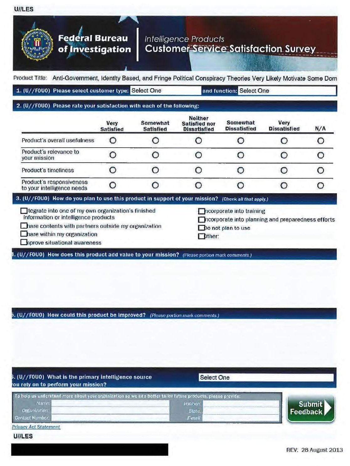 FBI Conspiracy Theory (Redacted) - Customer Service Satisfaction Form